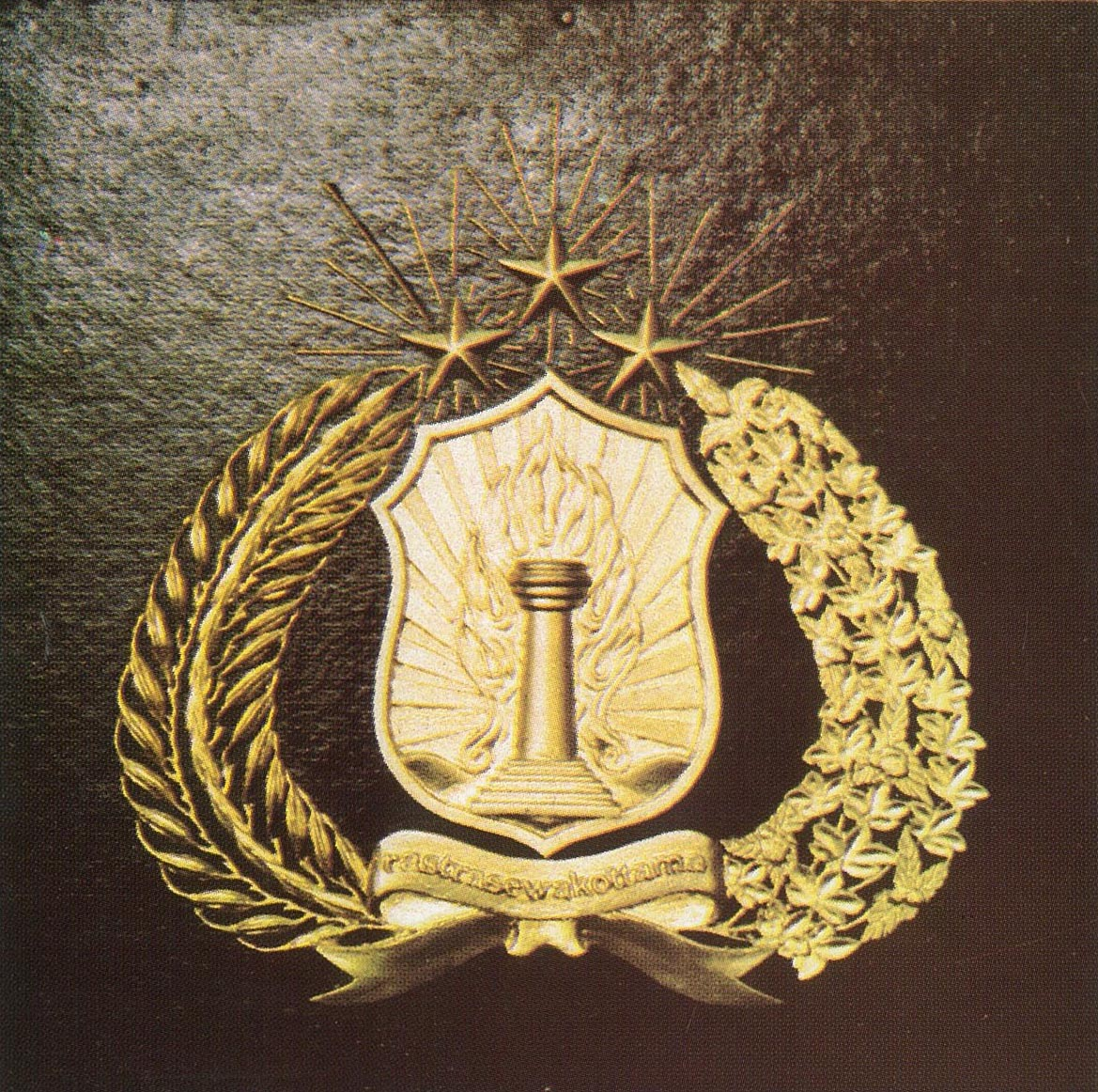 Emblem of Indonesian police